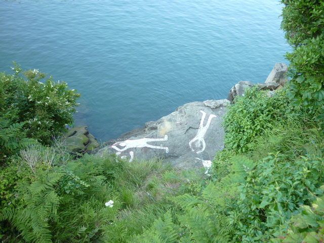 Graffiti in memory of four members of Comandos Autónomos Anticapitalistas Basque anticapitalist army group, in Pasaia (Basque Country).